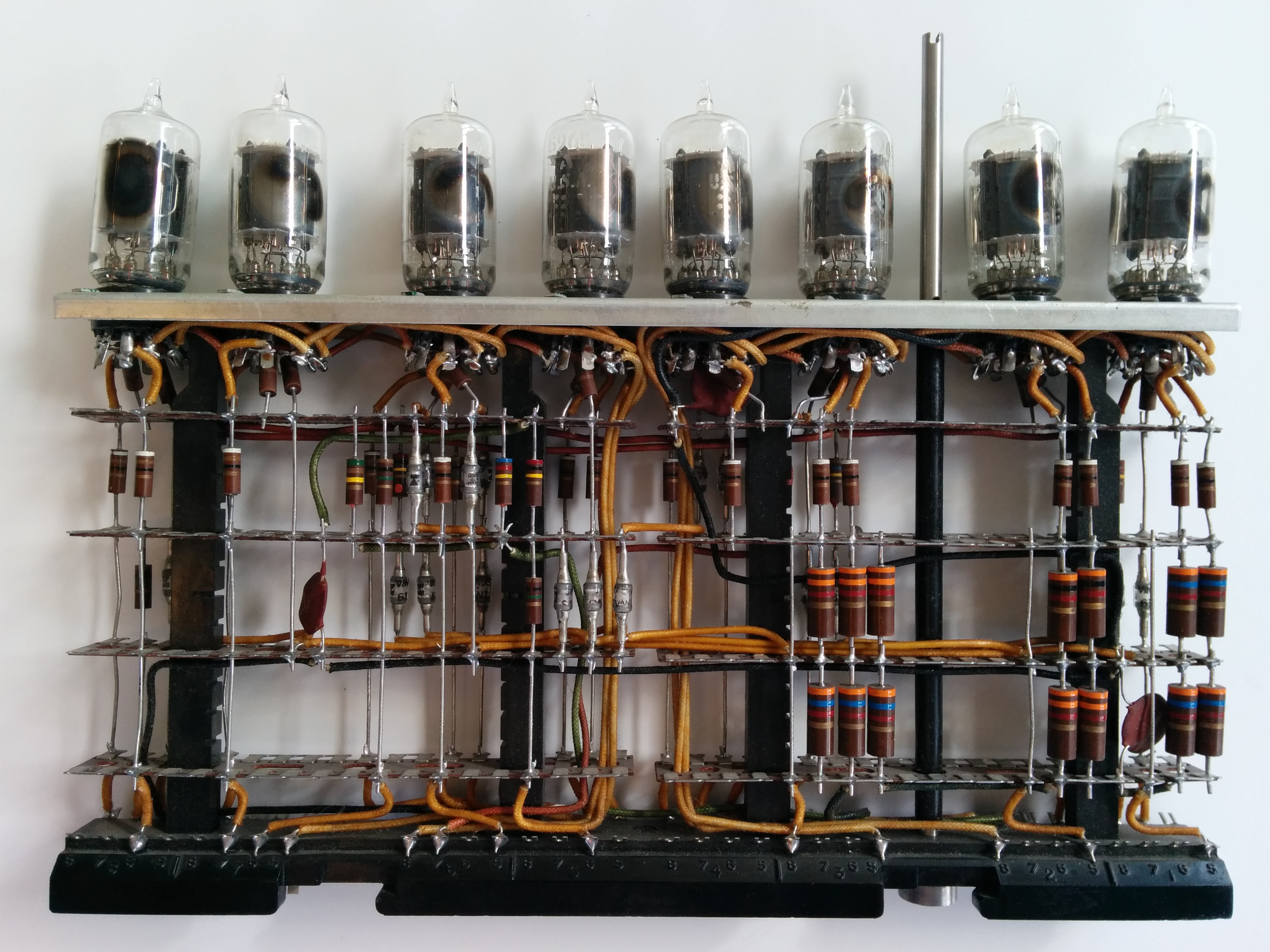 A module from a IBM 700 series computer, with eight 5965A/12AV7 dual triode vacuum tubes.